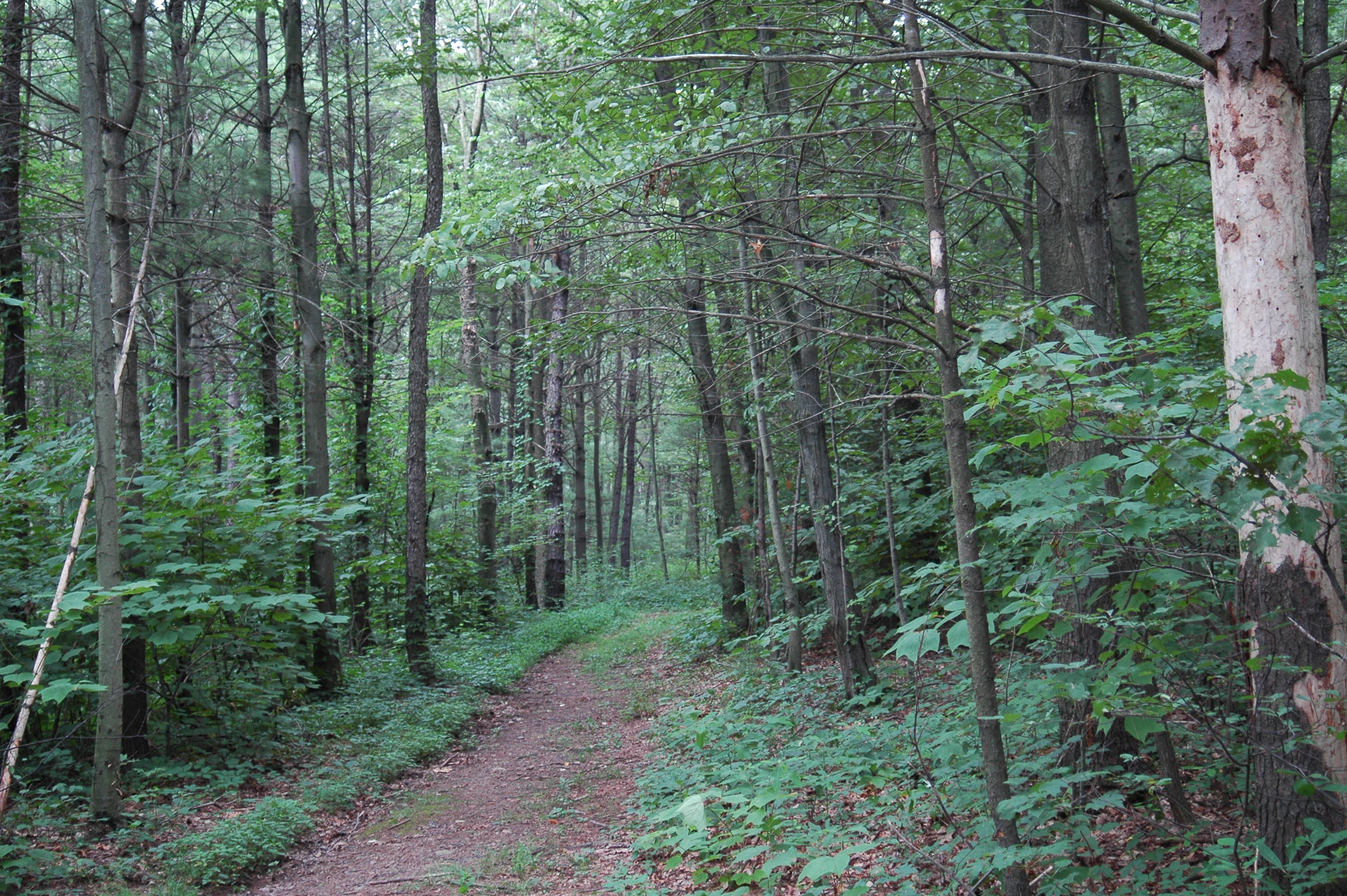 Not one of the offical 117 state parks, but one of 3 Conservation Areas.